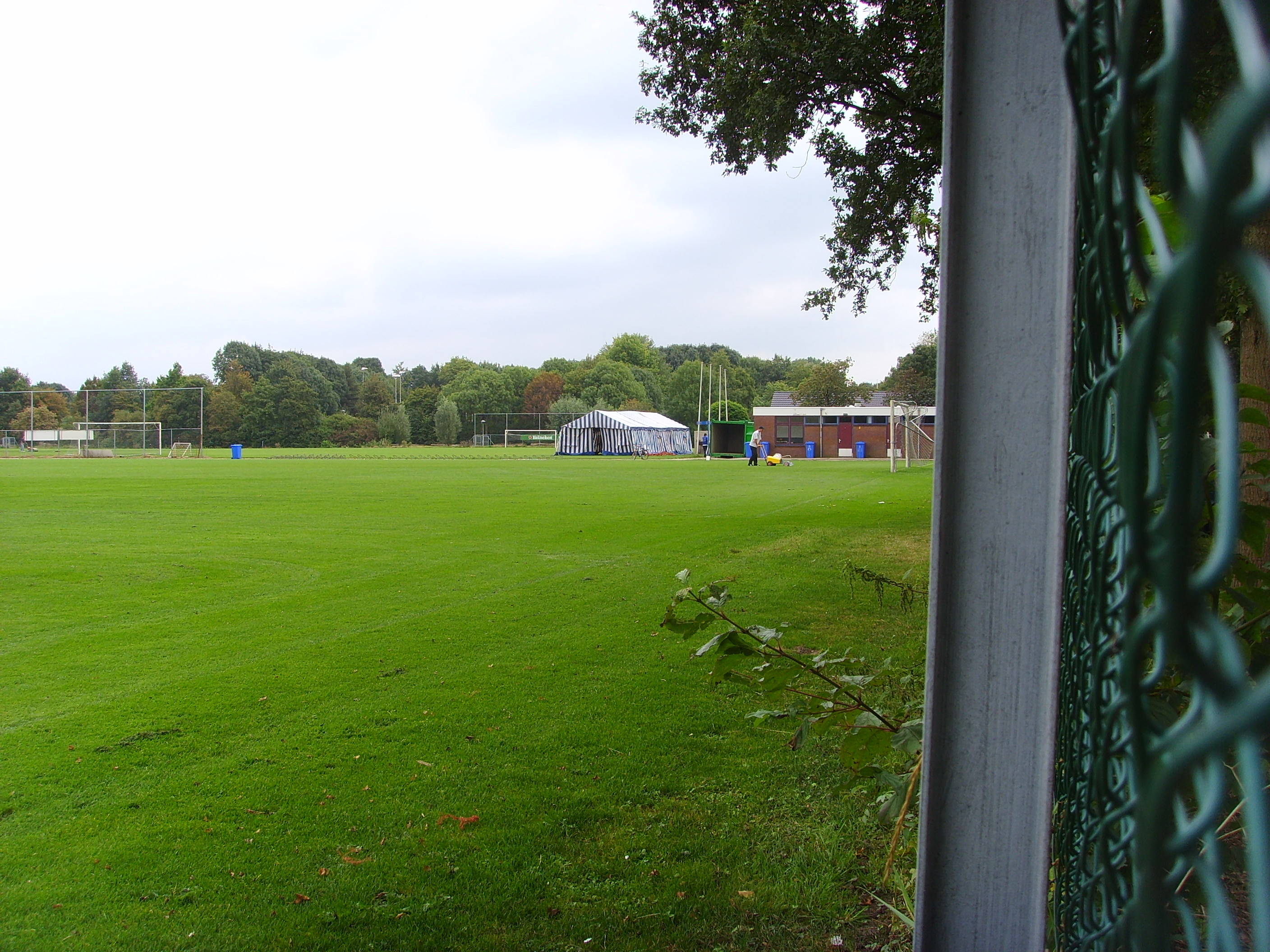 Kampong football club fields